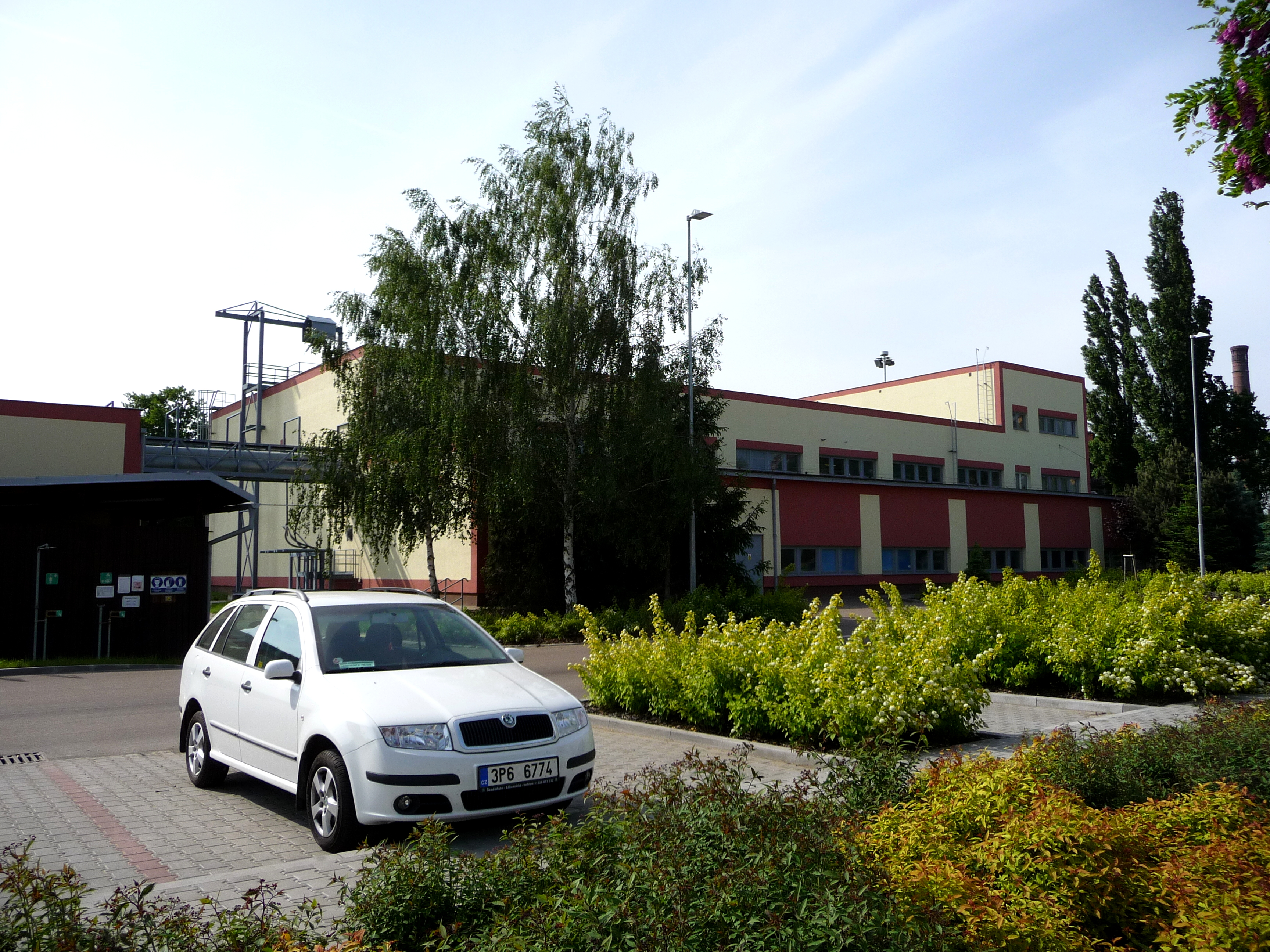 Plzeňský Prazdroj - On site water treatment plant.